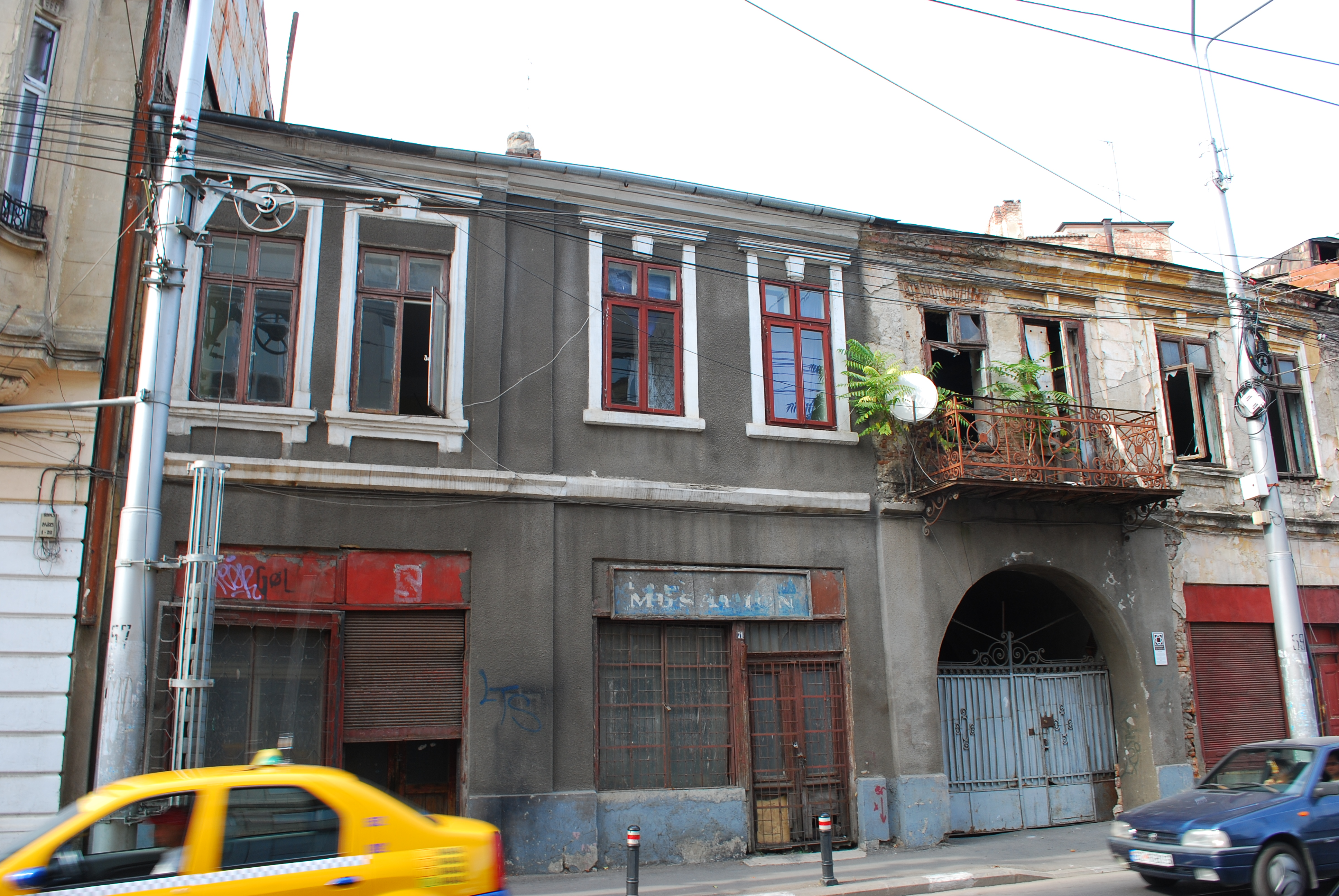 Historic building in Bucharest, Romania, on Calea Mosilor 73